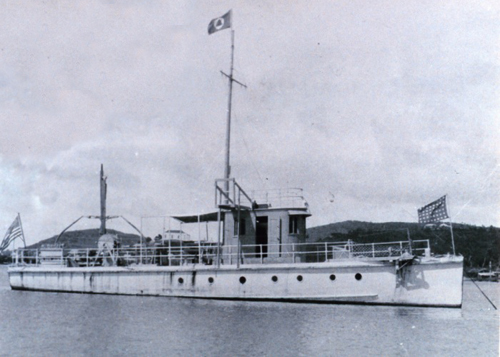 United States Coast and Geodetic Survey survey launch USC&GS Marindin outfitted for wiredrag work.